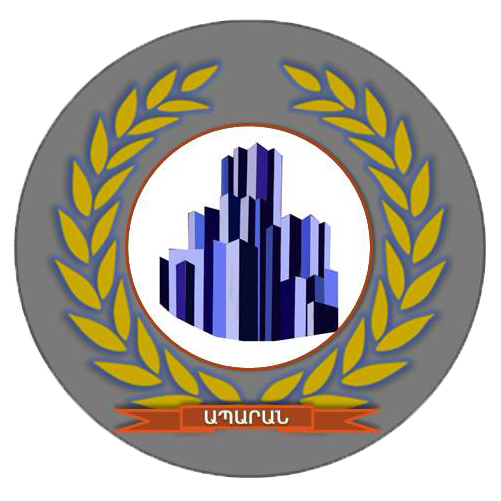 Coat of Arms of Armenian City of Aparan